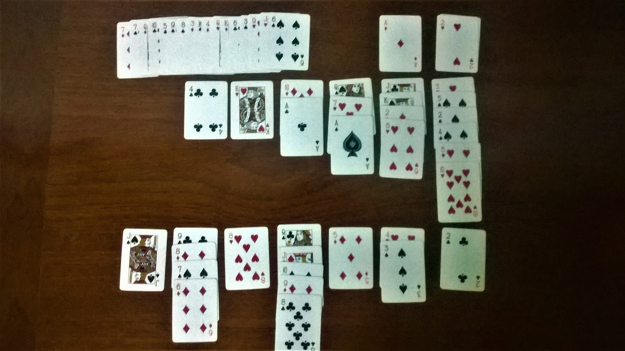 A lost game of Klondike. Every downtuned card are tuned up.